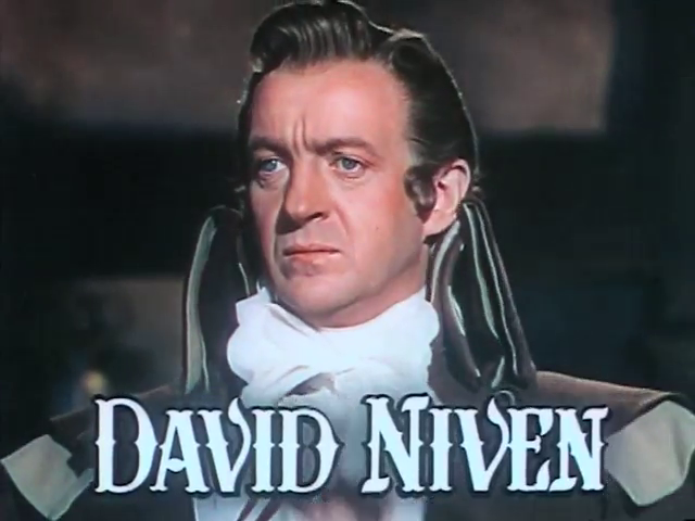 David Niven in The Elusive Pimpernel (UK), The Fighting Pimpernel (US) by Michael Powell and Emeric Pressburger.